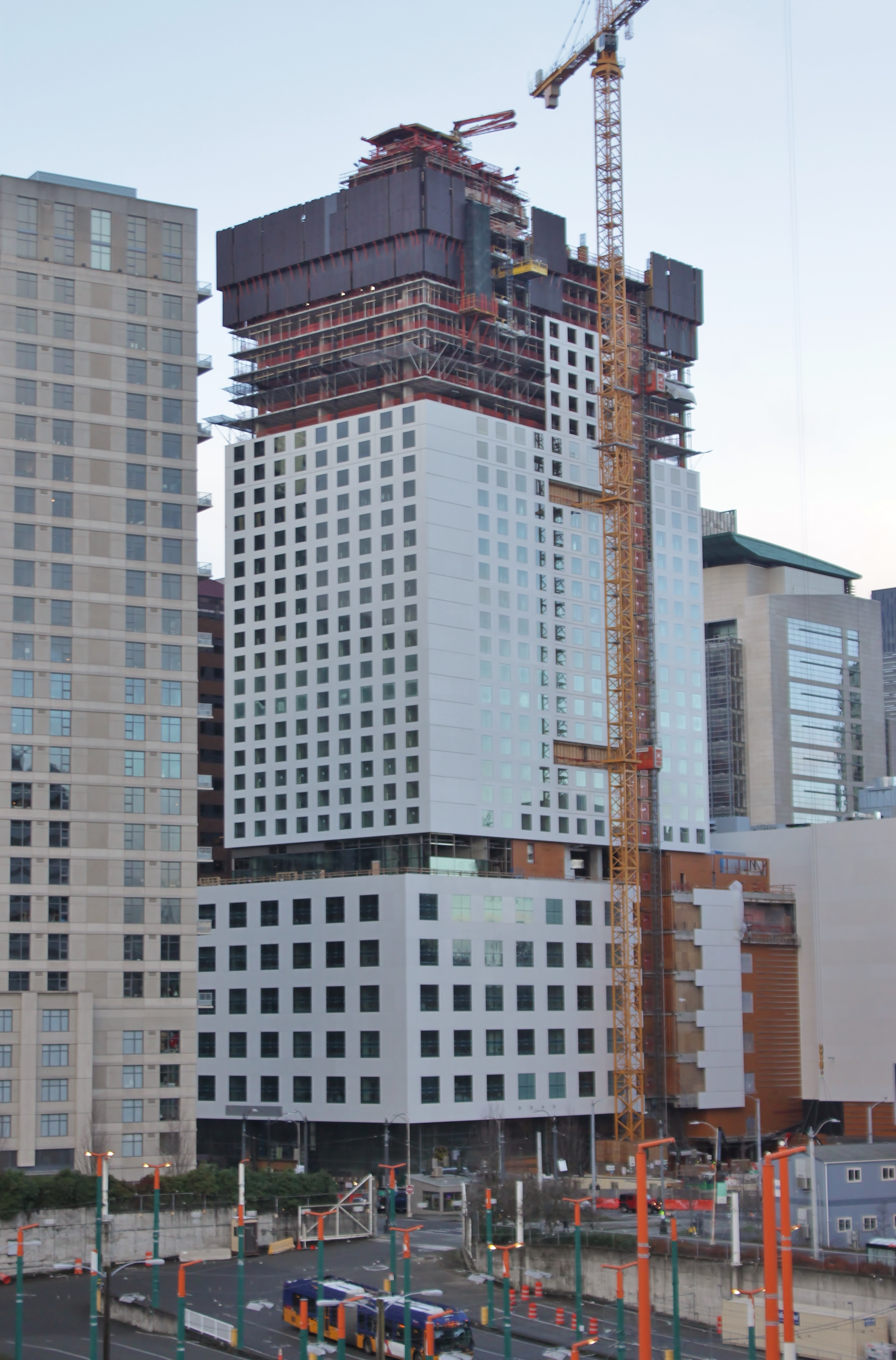 Hyatt Regency Seattle, a future high-rise hotel under construction in Seattle, Washington, viewed from above Convention Place station on Pine Street.